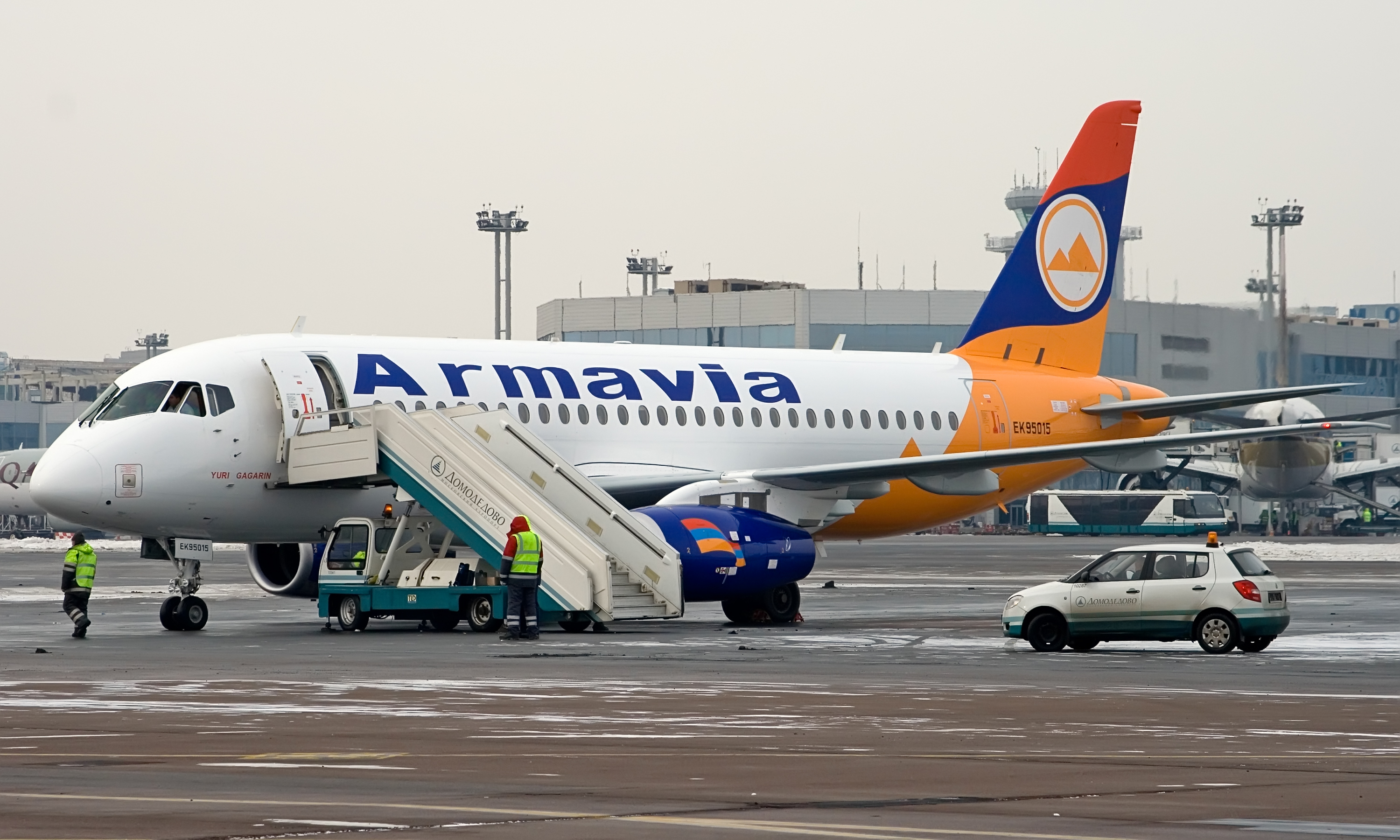 Armavia Sukhoi Superjet at Domodedovo International Airport